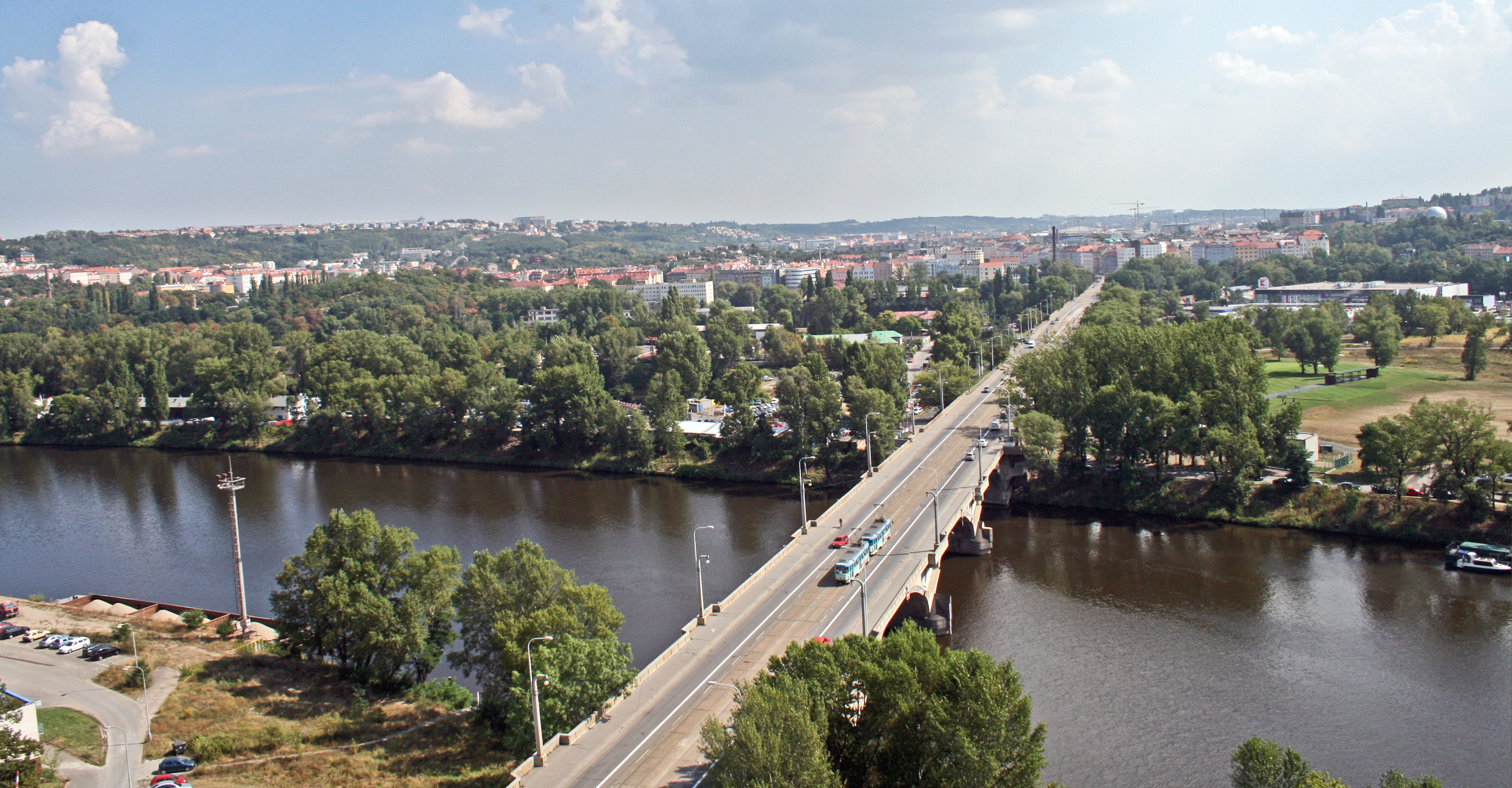 View on Libeň bridge over Vltava river from the top of Lighthouse Vltava Waterfront Towers, Prague, Czech Republic